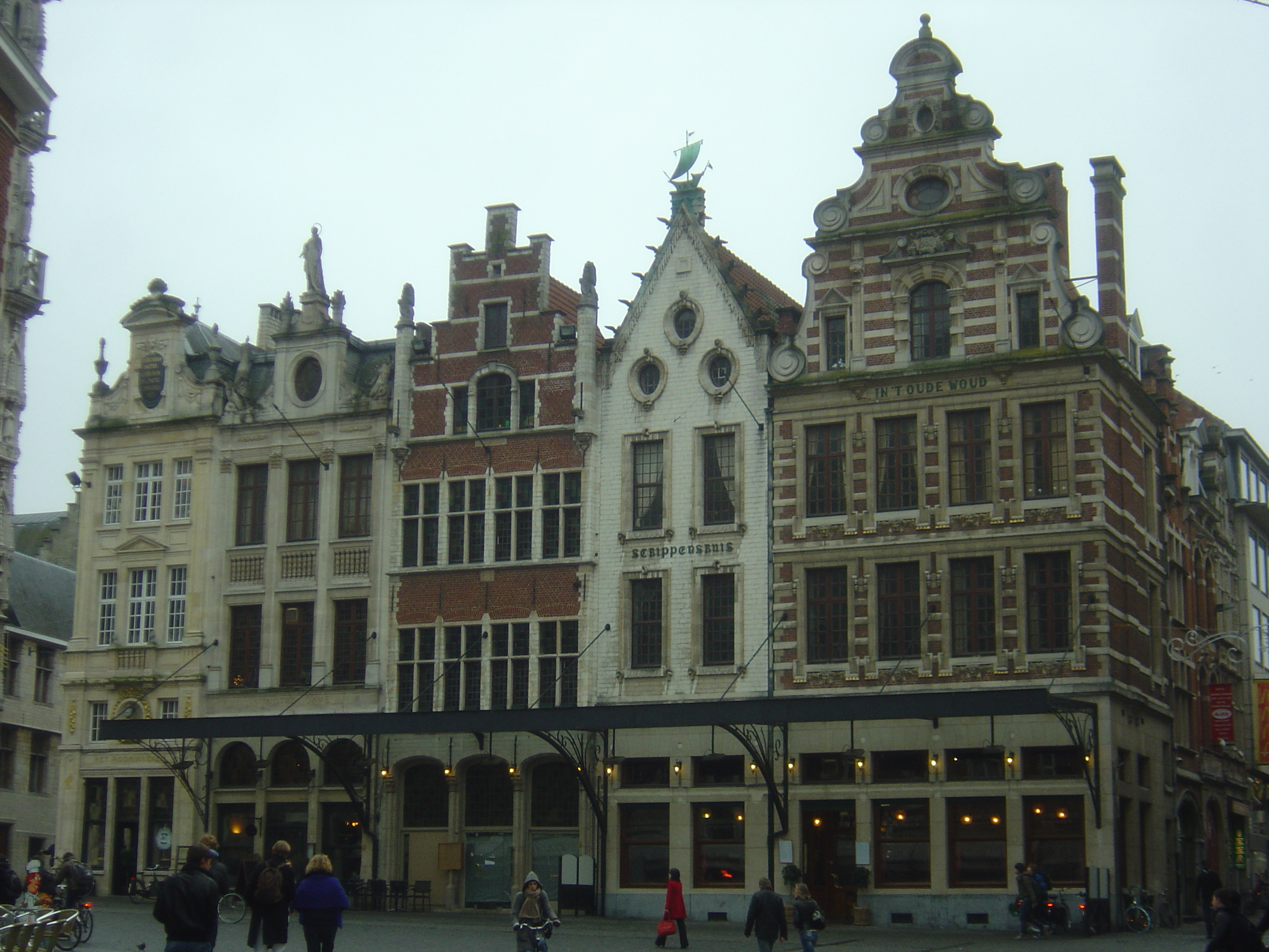 Bistro Gambrinus in Belgium